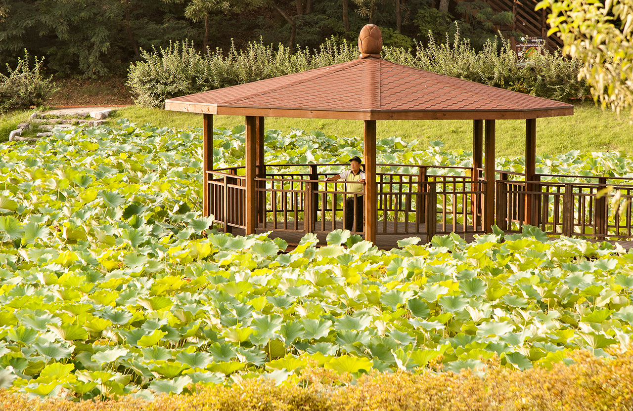 Lotus Lookout at Seonam Lake Park, Ulsan